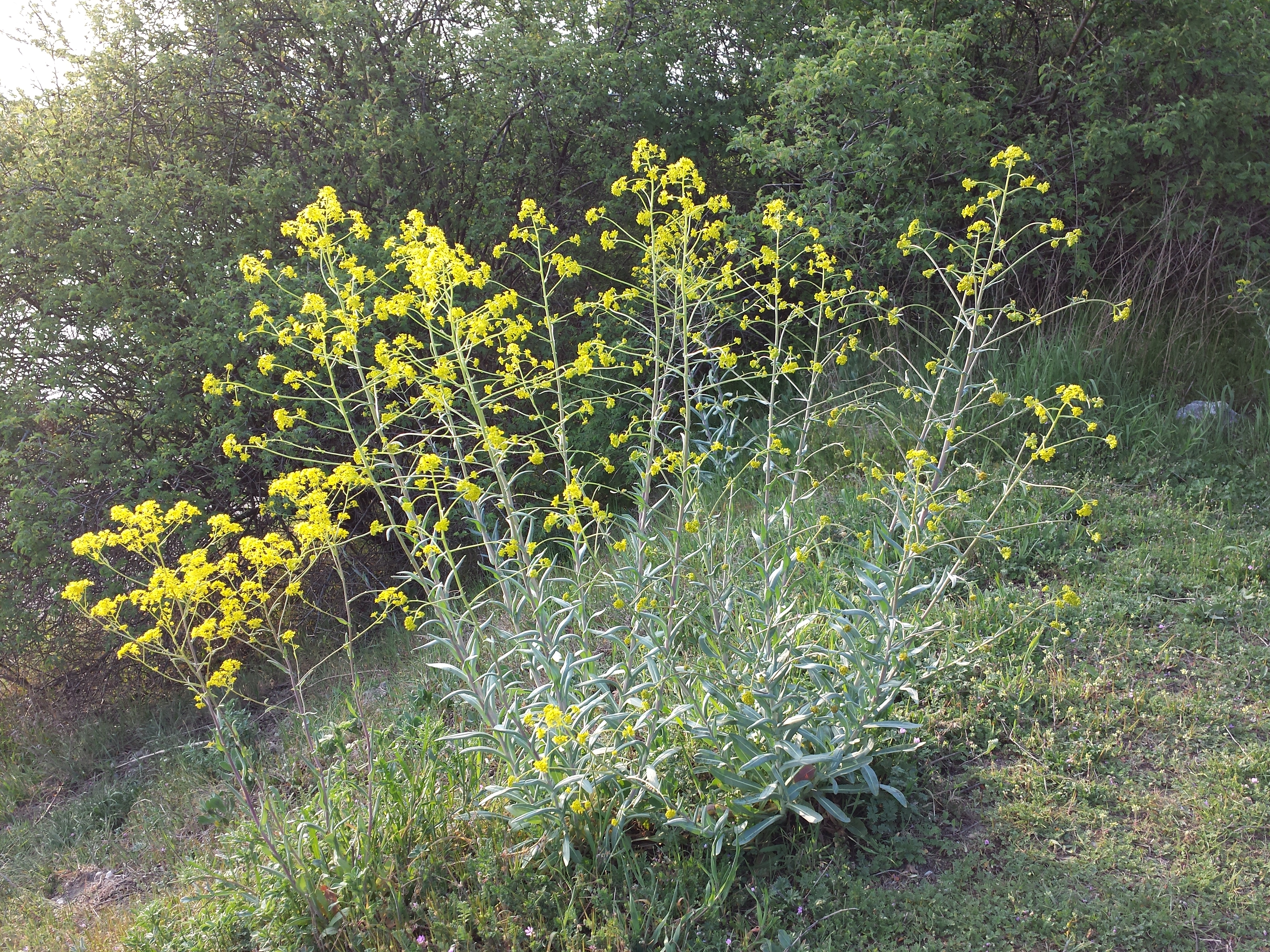 Habitus Taxon: Isatis tinctoria (s. str.) (sensu Fischer et al. EfÖLS 2008 ISBN 978-3-85474-187-9) Location: Neue Donau, Vienna-Floridsdorf - ca. 160 m a.s.l. Habitat: dry ruderal meadows